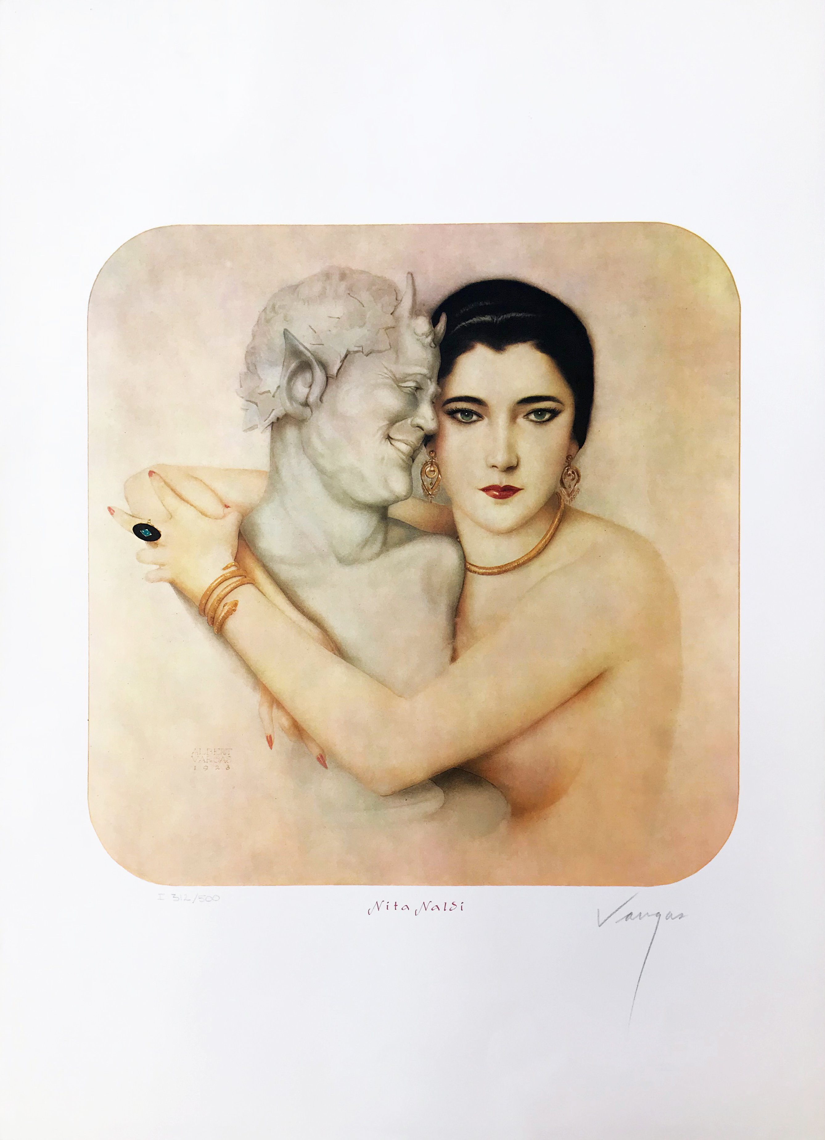 Nita Naldi with a statue of a faun, illustrated by Alberto Vargas and featured in Shadowland, March 1923.